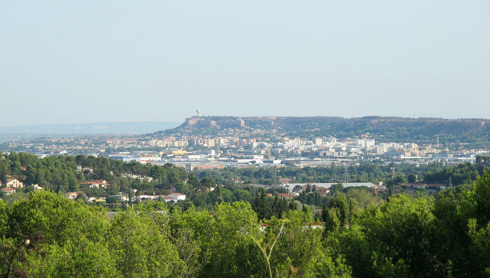 Vitrolles seen from Le Rove.